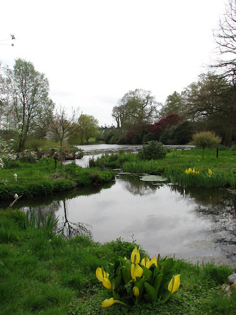 The Lake In the grounds of Hoveton Hall. The yellow plant seen in the foreground is yellow skunk cabbage (Lysichiton americanus), a member of the Araceae family, originating from north east Asia and western north America. The plant grows in swampy areas, along rivers and lakesides, flowering between March and May; their strong scent is very attractive to pollinating insects. The Lake is shown on the old Fadens map from 1797; it has a clay and shingle bottom and was dug by hand. Hoveton Hall gardens surround Hoveton Hall, which was built between 1809 and 1812 by Humphry Repton and his son John Adey Repton. In the 1940s the parkland was ploughed in order to provide food during the war years and most trees were felled. In 1993 the arable sections of the park were re-grassed; presently the grounds encompass 15 acres of formal gardens, lakes and woodland. Hoveton Hall and gardens has been owned by members of the Buxton family since 1946.